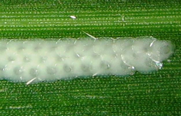 Egg cluster of Ostrinia furnacalis.